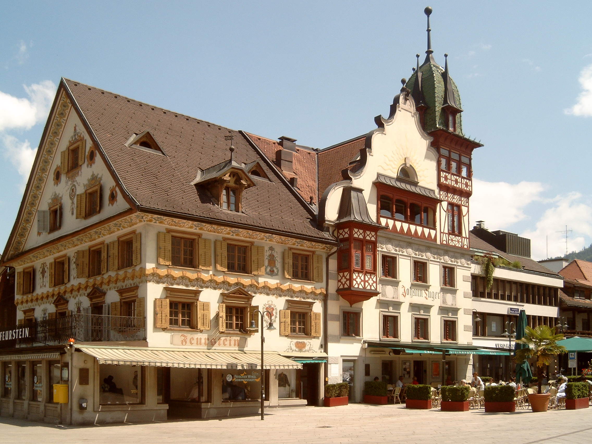 Dornbirn, monumental building